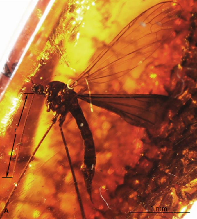 Elephantomyia (E.) brevipalpa No. MP/3323, body, lateral view (female)